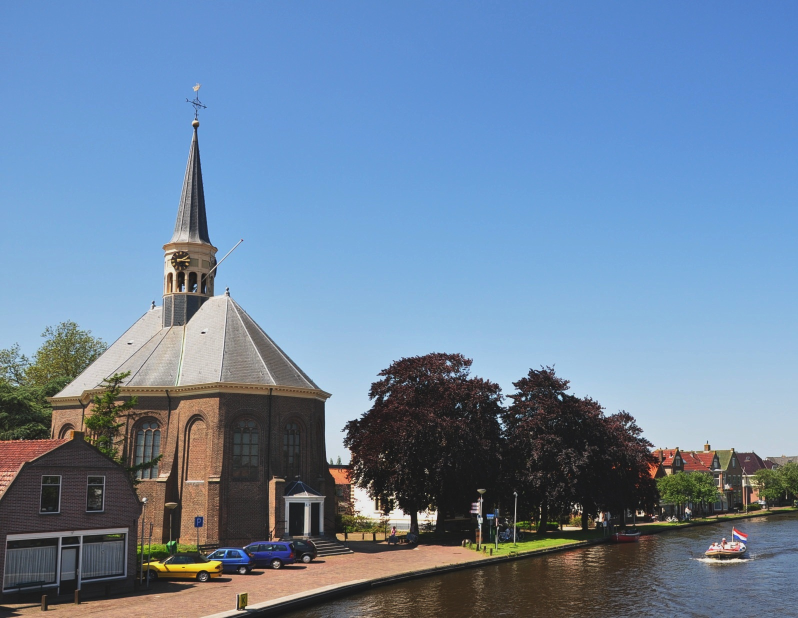 The old village centre of Woubrugge on the Woudwetering canal with the Netherlands' Reformed Church, a listed building (municipality Kaag en Braassem, Provincie South-Holland, Netherlands).